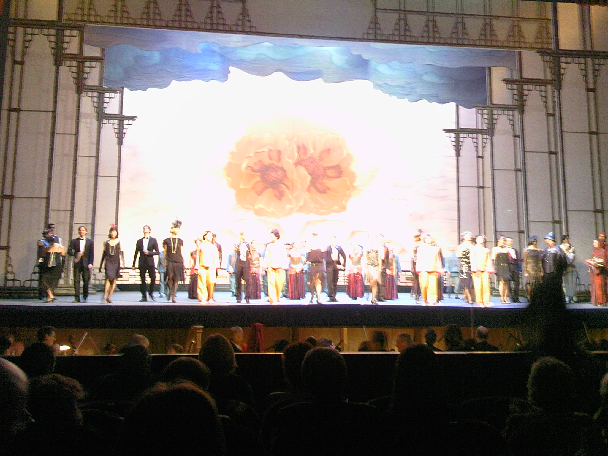 Last minutes of the first performance of the Red Poppy ballet by R.Gliere in Rome